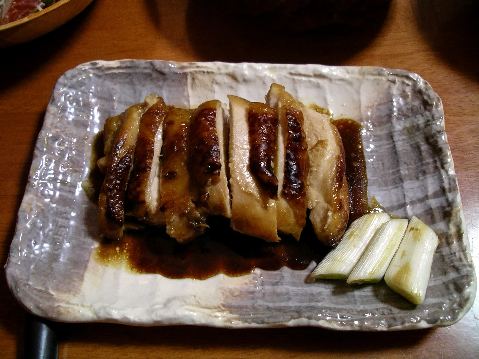 Chicken teriyaki. Teriyaki (照り焼き, テリヤキ) is a Japanese cooking sauce for fish or meat which has been cut or sliced and broiled or grilled in a sweet soy sauce marinade.